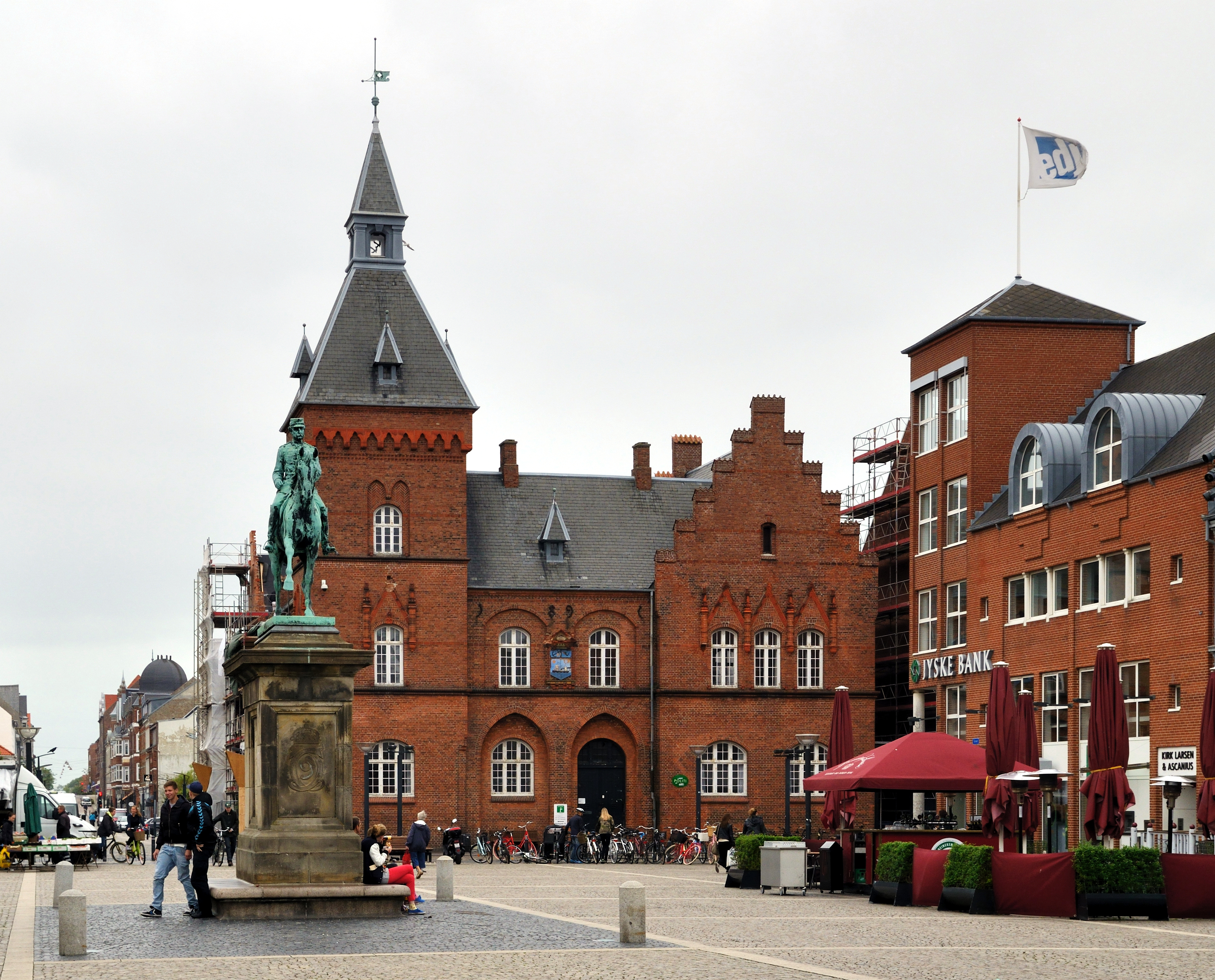 Esbjerg: market place